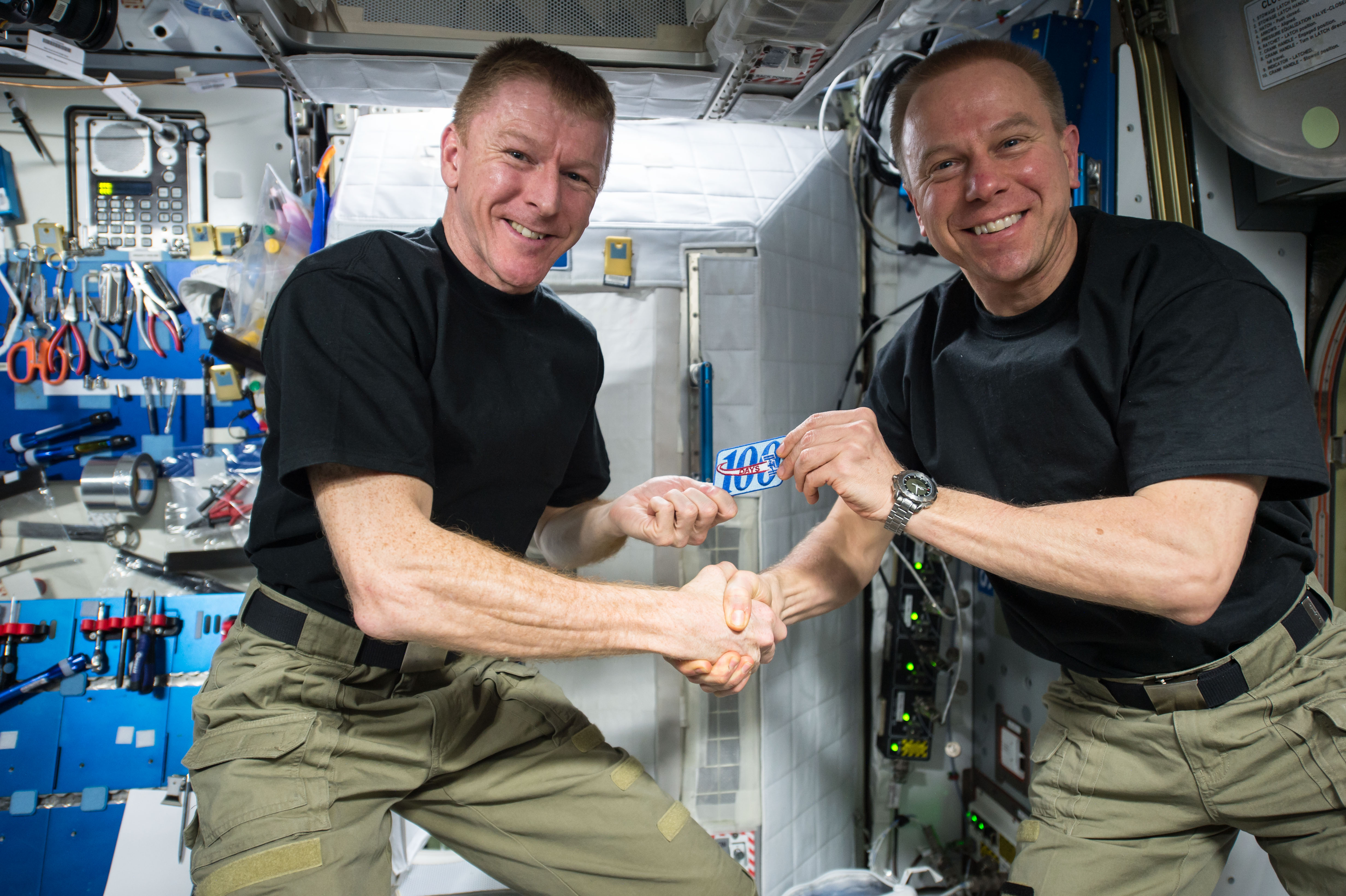 NASA astronaut Tim Kopra (right) presents ESA (European Space Agency) astronaut Tim Peake (left) with a patch to commemorate his 100th day in space on March 24, 2016. Peake, who arrived at the station along with Kopra on Dec. 15, 2015, is on his first spaceflight and was the 221st individual to visit the International Space Station.